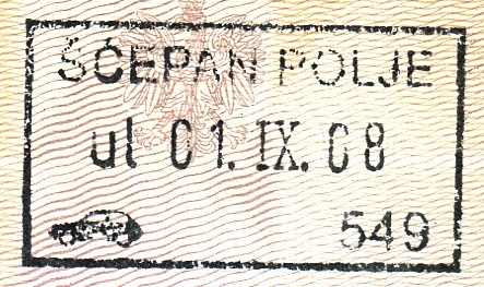 Passport stamp from Sćepan Polje, 2008. (with Hum in Bosnia-Herzegovina)